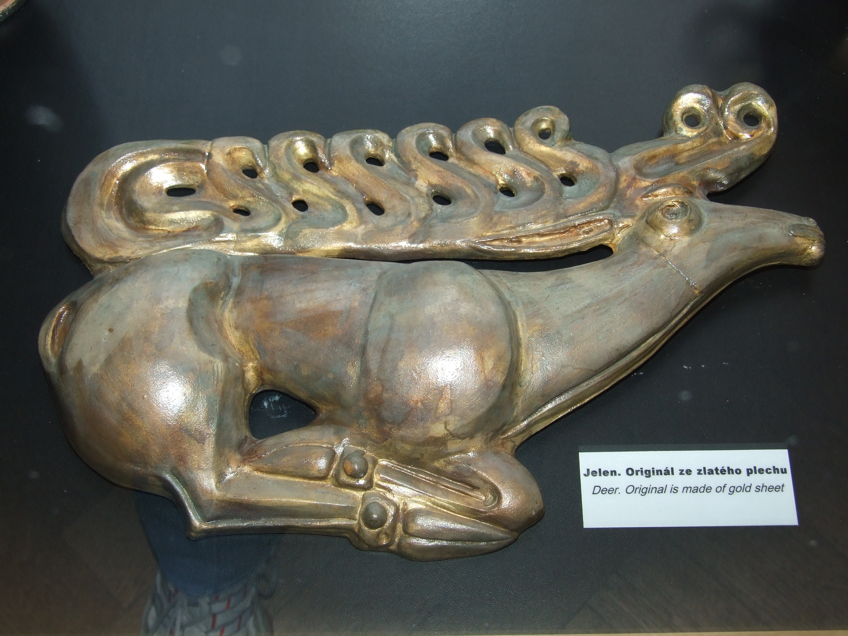 Prehistoric Times of Bohemia, Moravia and Slovakia, National Museum in Prague